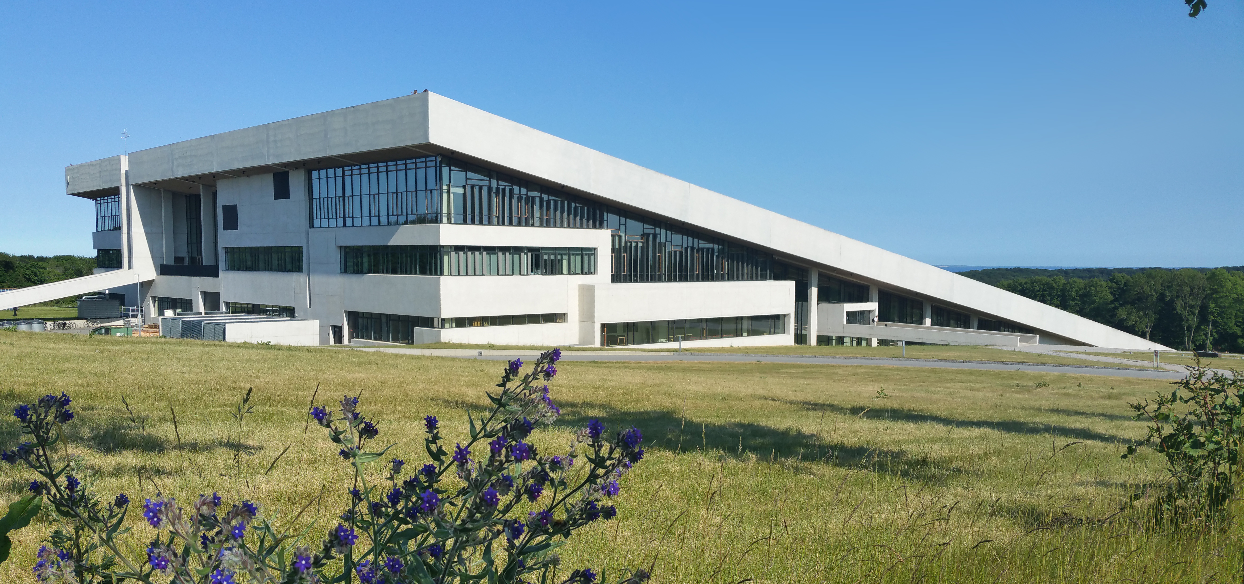 Photo by urban planner Nanda Sluijsmans